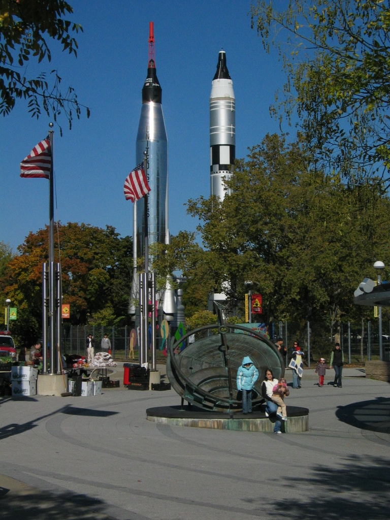 Next to the Hall of science